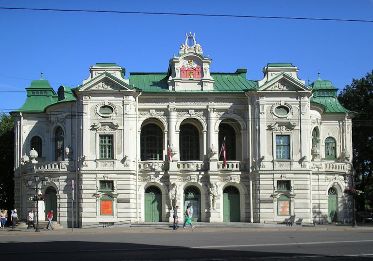 Latvian National Theatre in Riga.